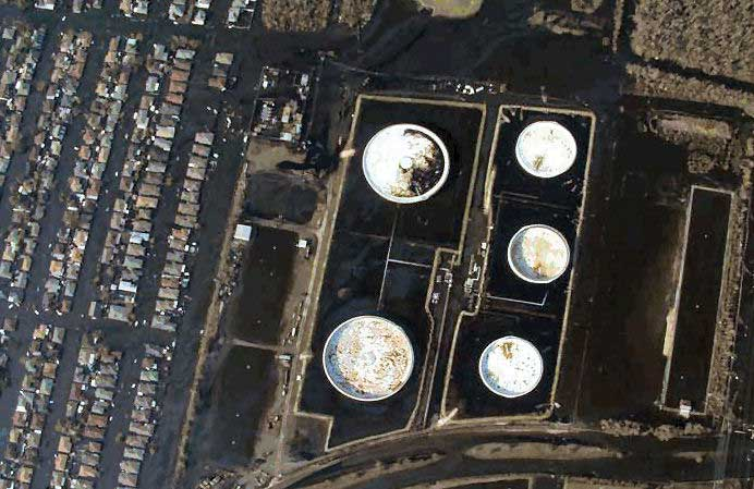 Hurricane Katrina photo of oil spill in Chalmette, showing oil tanks & streets covered with oil slick. US EPA photo from " by the United States Environmental Protection Agency (webpage of June 16, 2006).